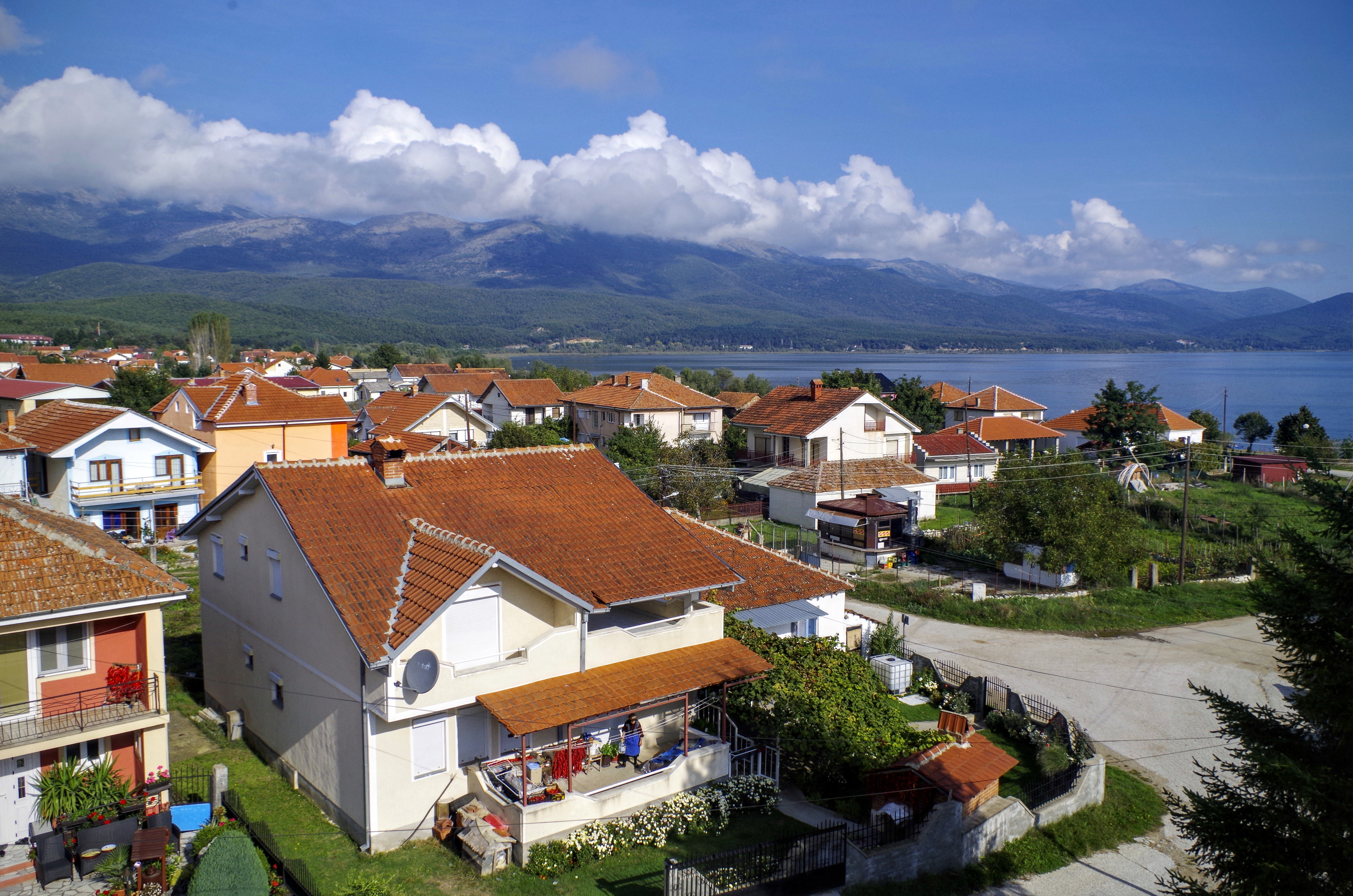 View of the village Stenje